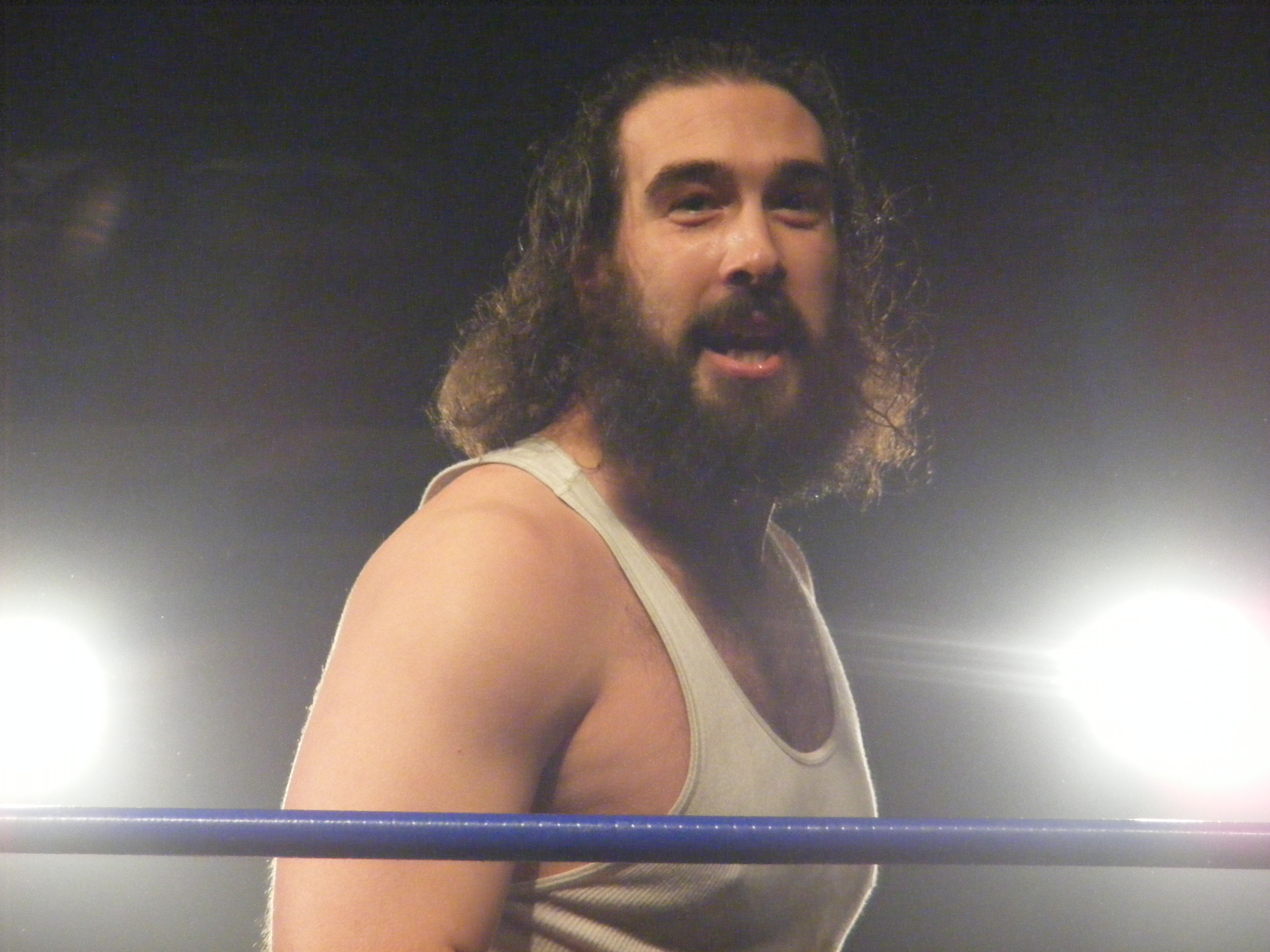 Professional wrestler Brody Lee at Chikara's King of Trios Night 2 show in Philadelphia on April 24, 2010.